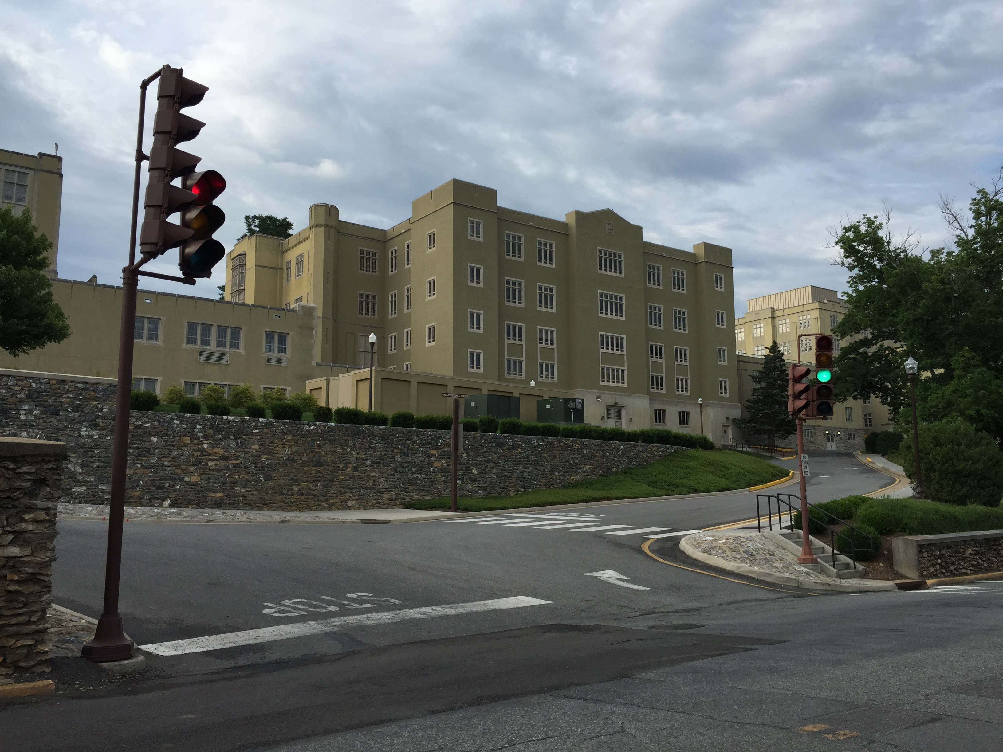 View west along Virginia State Route 303 at U.S. Route 11 Business (Main Street) at the entrance to the Virginia Military Institute in Lexington, Virginia